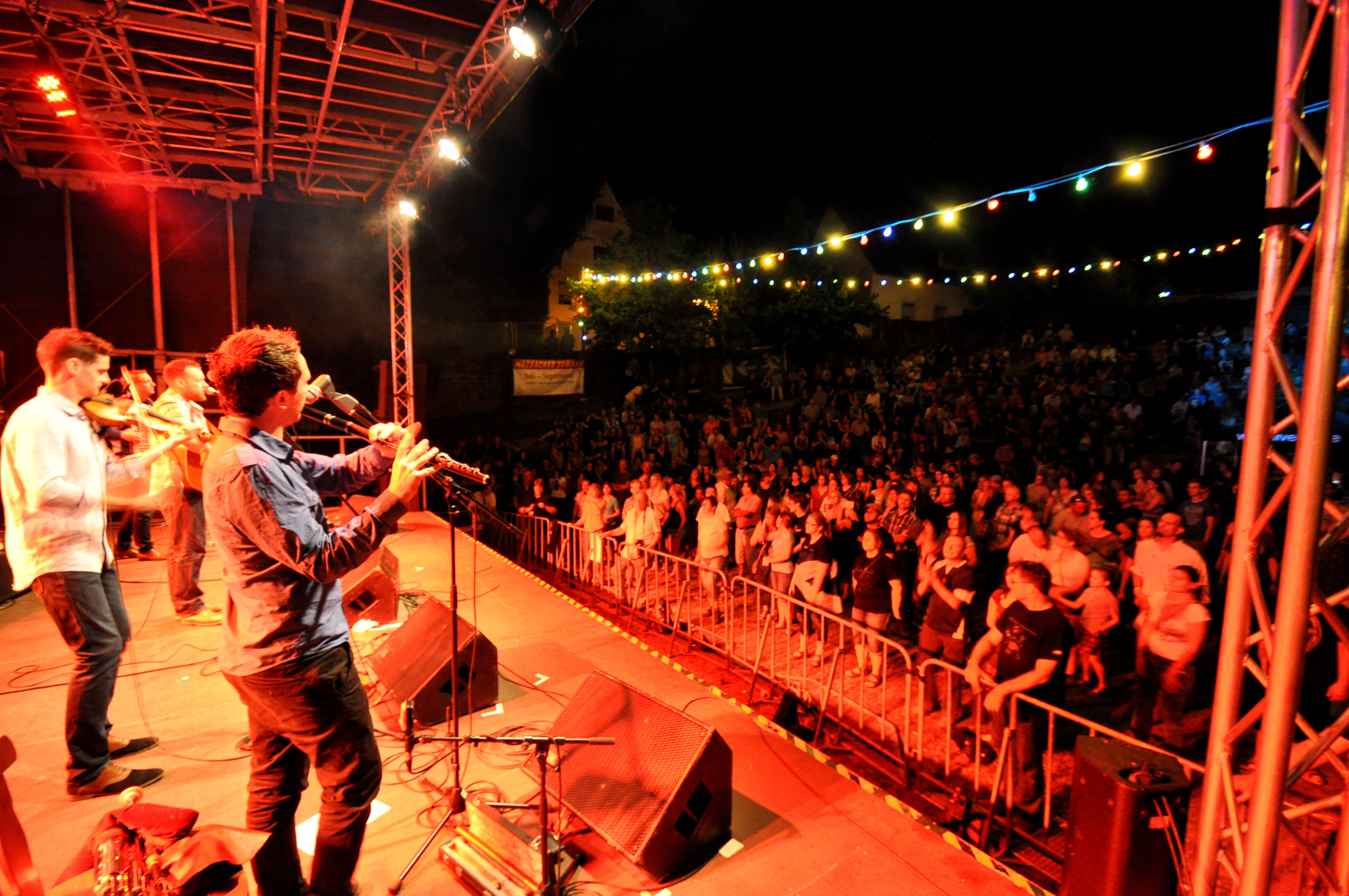 Mànran (SCT/IRL), Folk am Neckar 2015, Mosbach-Neckarelz, Germany Festivalsommer This photo was created with the support of donations to Wikimedia Deutschland in the context of the CPB project "Festival Summer".